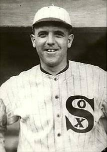 1919 photograph of Eddie Cicotte, public domain.